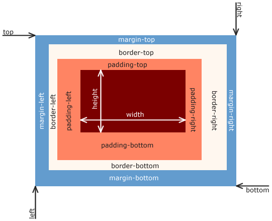 The box-modell (CSS)